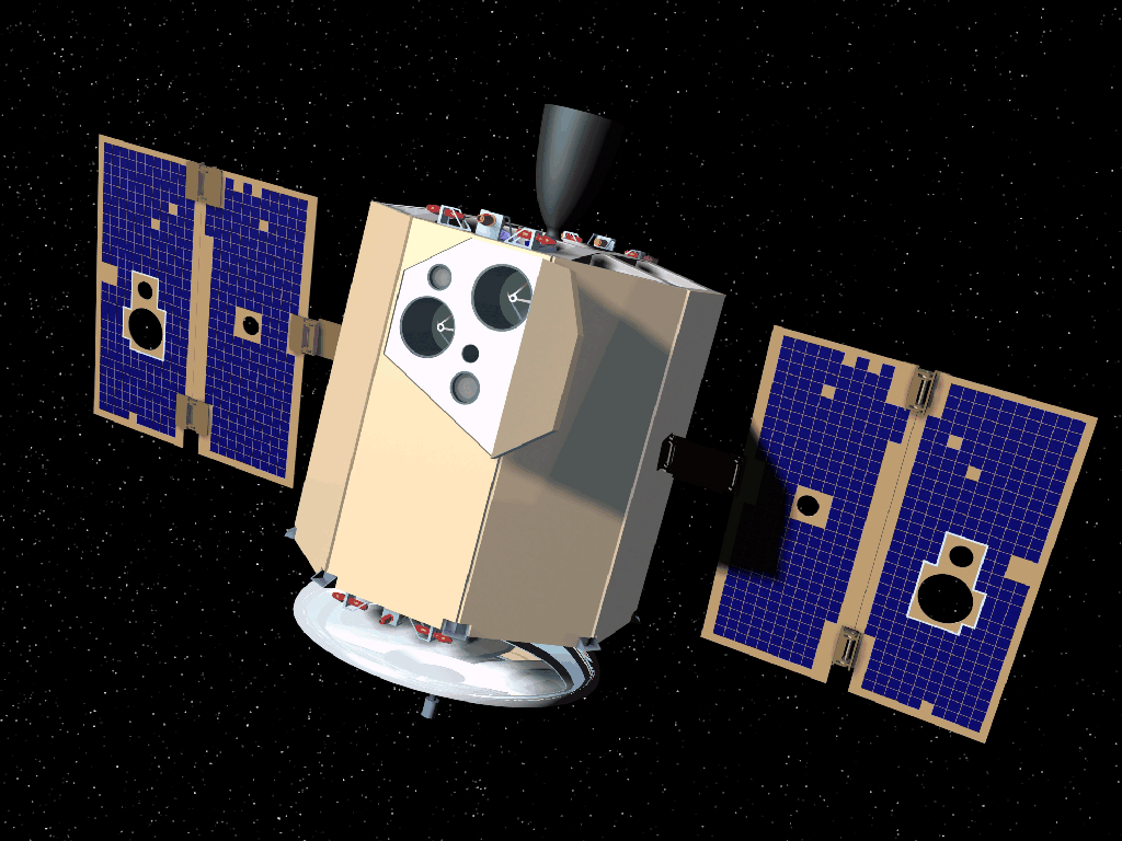 Artist's conception of the Naval Research Laboratory spacecraft Clementine.